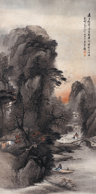 A distant view of the temple in the sunset, by Wu Shixian (Wu Qingyun), 1903, 103.6cm X 51.8 cm, the National Art Museum of China, Beijing. The older version is my own photo.